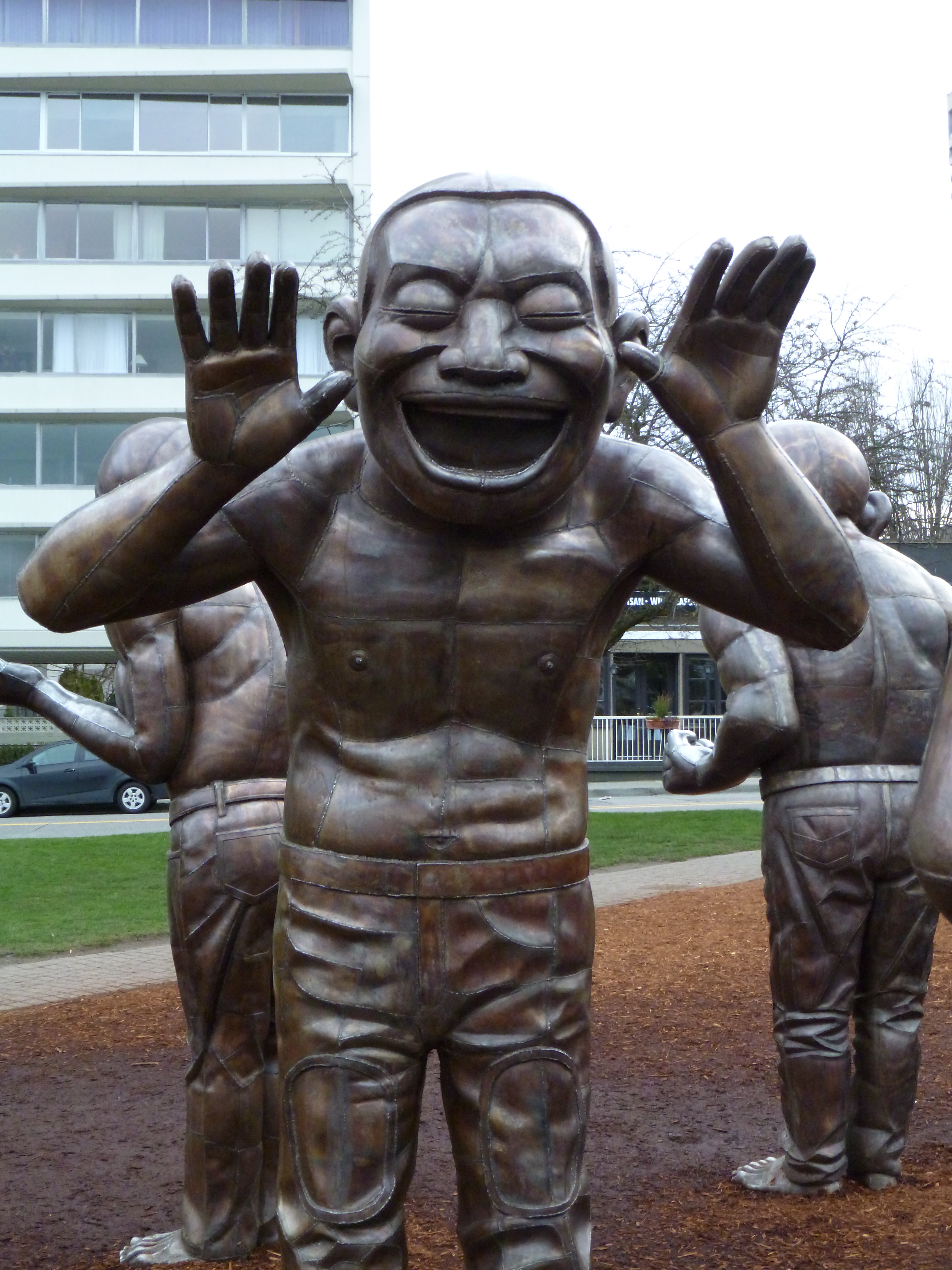 A-maze-ing Laughter by Yue Minjun in English Bay, Vancouver, Canada.